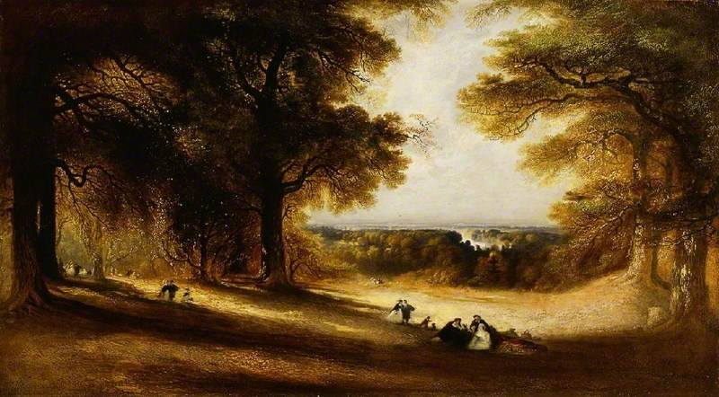 Martin, John; Landscape: View in Richmond Park; The Fitzwilliam Museum; oil on paper, 50.8 x 91.5 cm